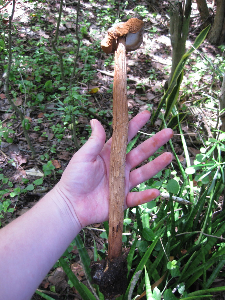 The stalked puffball mushroom Battarrea phalloides (Dicks.) Pers. Specimen photographed in Oahu, Hawaii, USA. Notes: "Found these growing right by the beach. Sandy soil, probably decomposing leaf litter. Dry, powdery texture. Woody, fibrous stem. Didn’t see any volva at the base."